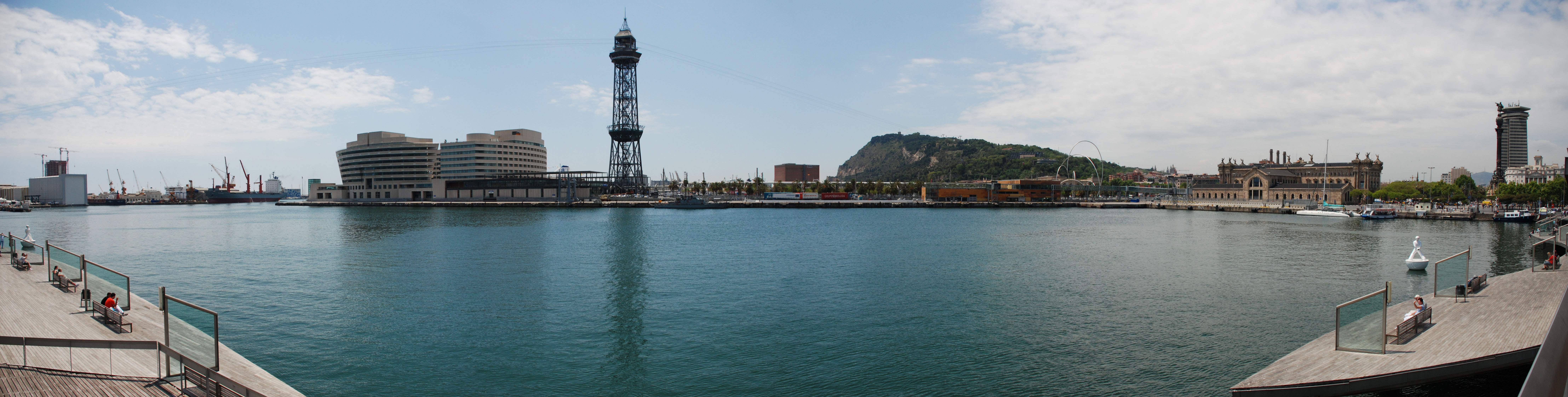 A panoramic view of the Barcelona marina. Panorama stitched from 4 photos.